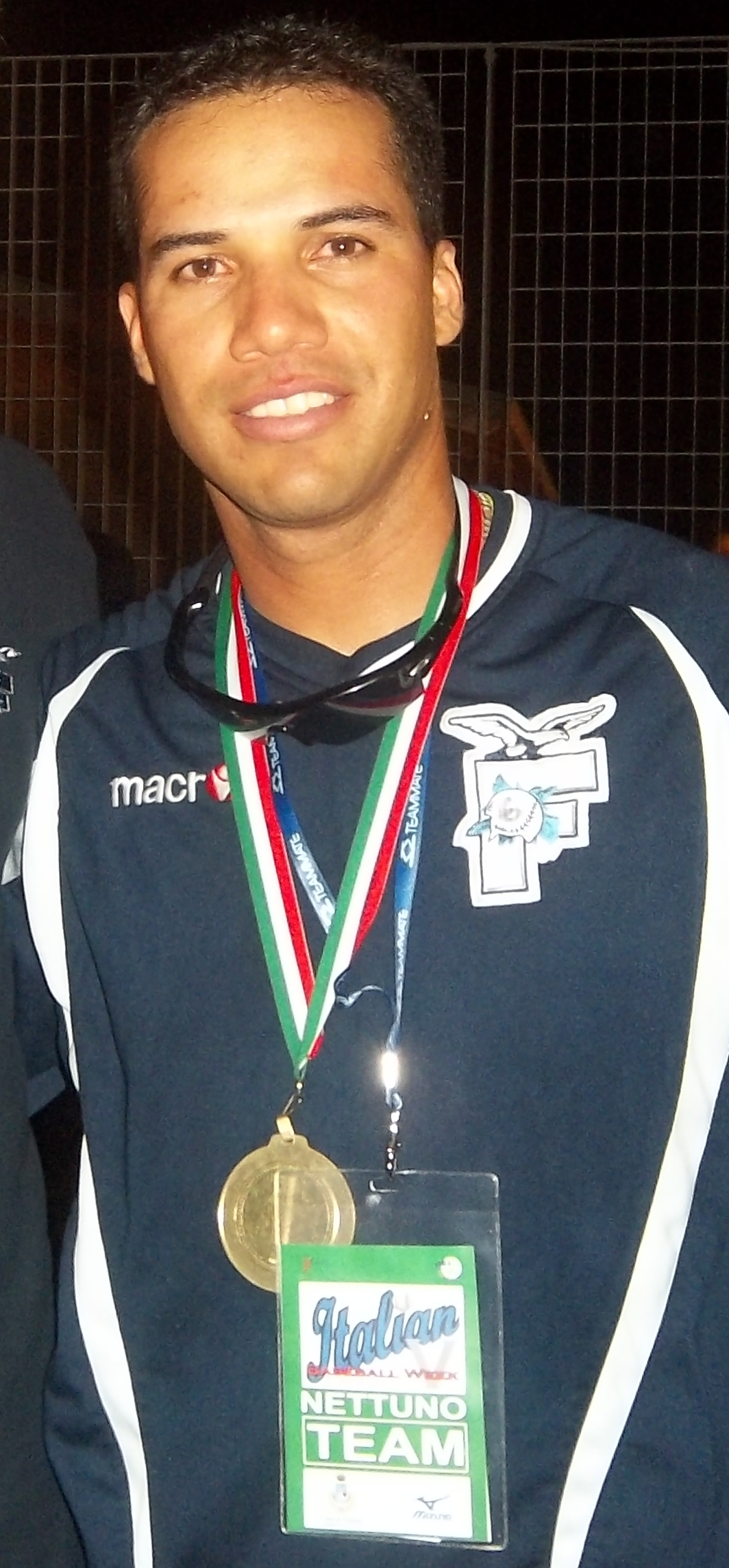 Juan Carlos Infante with the gold medal of the European Cup 2012 Final Four won by Fortitudo Baseball Bologna in Nettuno on 30 August 2012.